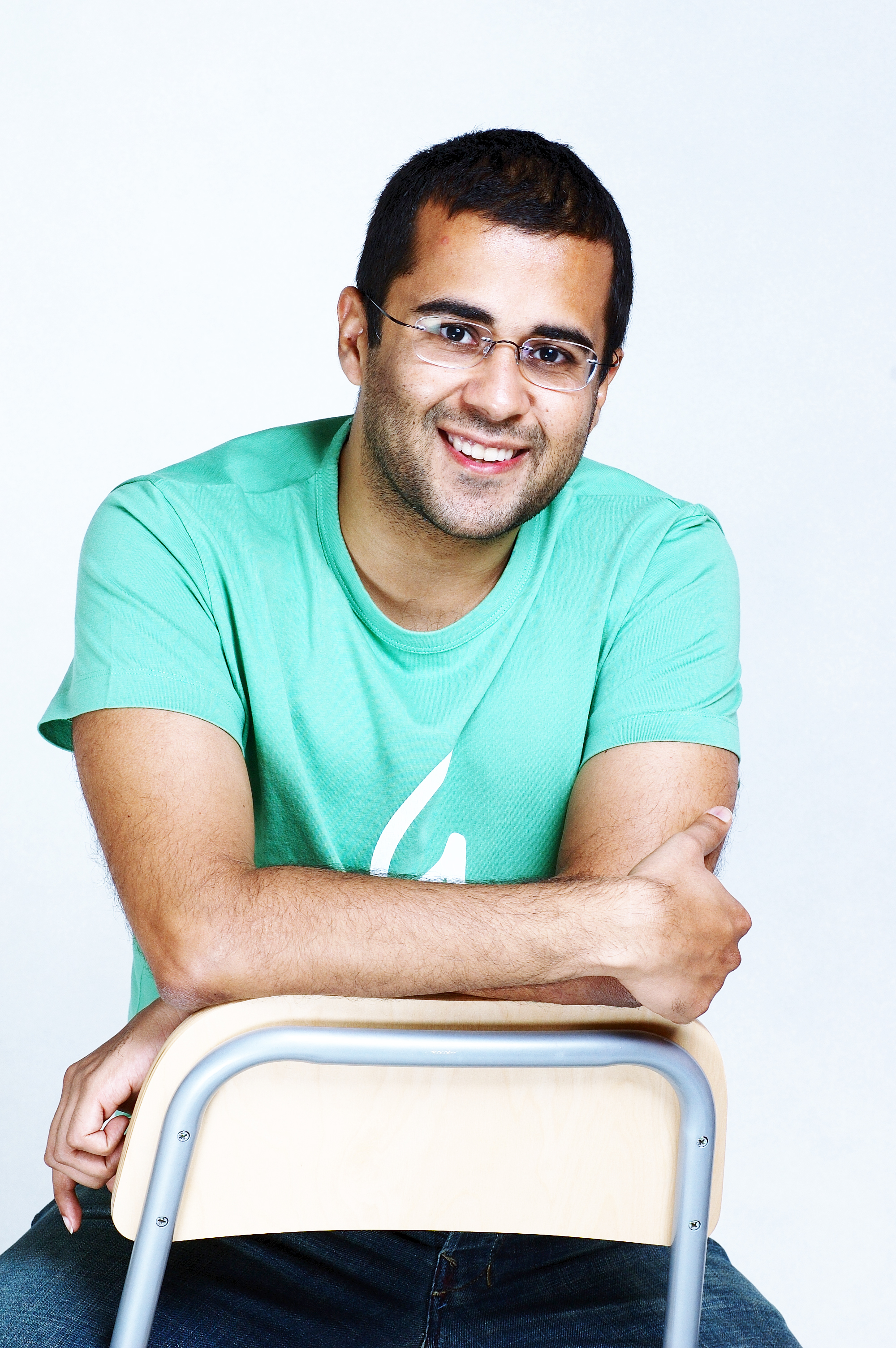 Chetan bhagat's portrait